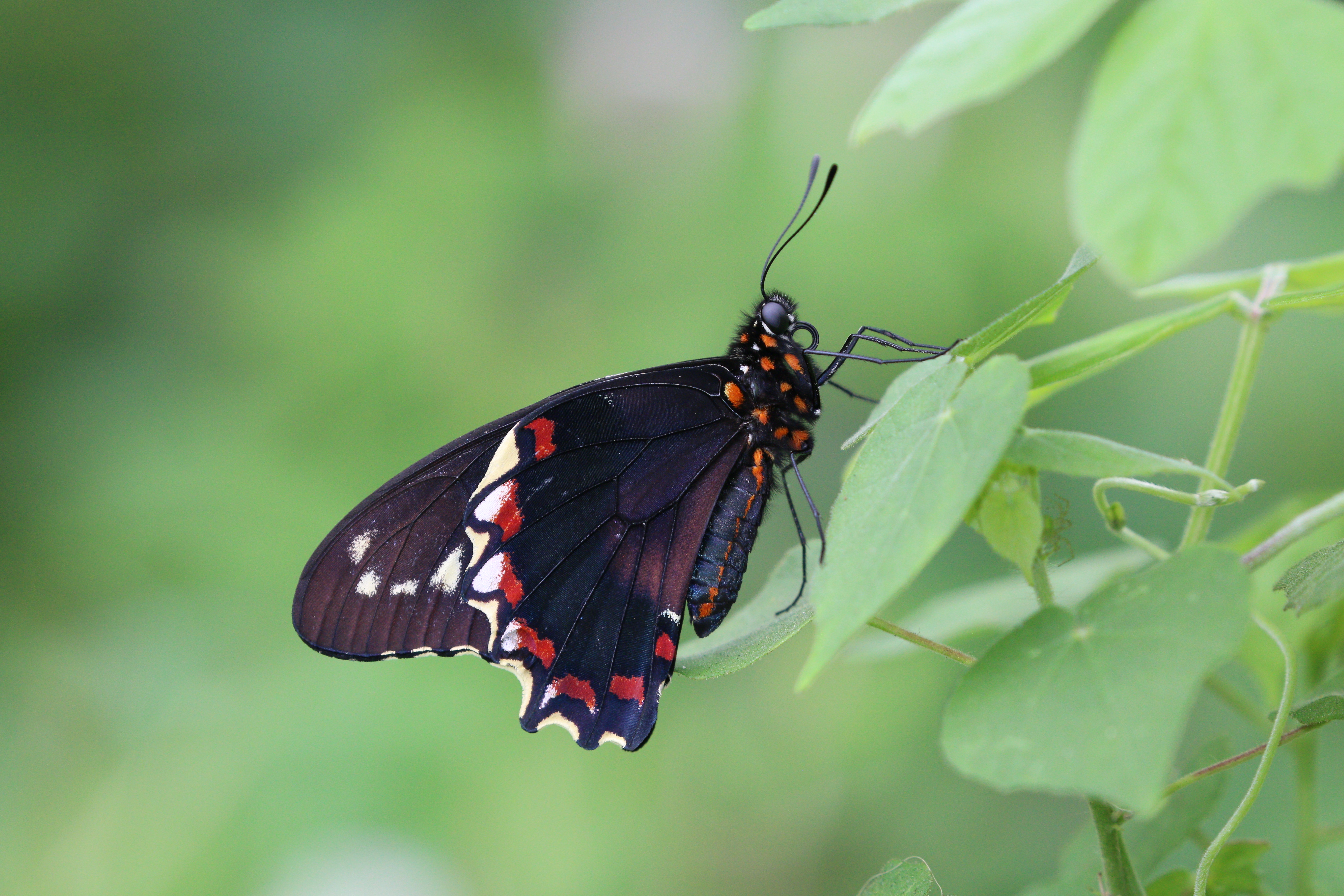 Gold rim swallowtail (Battus polydamas jamaicensis), Jamaica